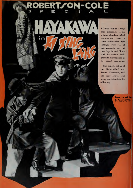 Advertisement with Sessue Hayakawa in the film Li Ting Lang (1920), directed by Charles Swickard.